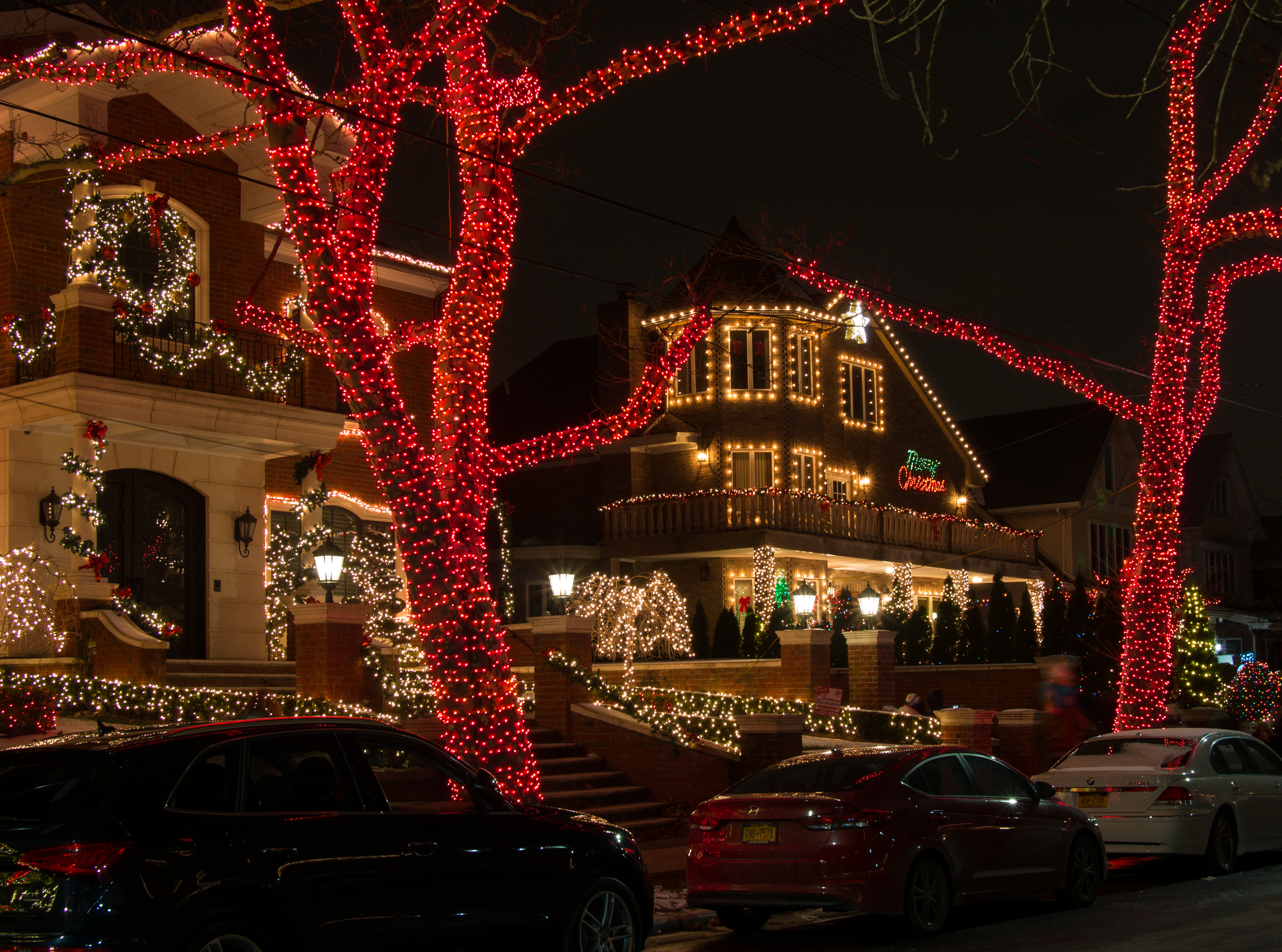 "Dyker Lights" -- the Dyker Heights neighborhood of Brooklyn is known for elaborate Christmas/holiday decorations.